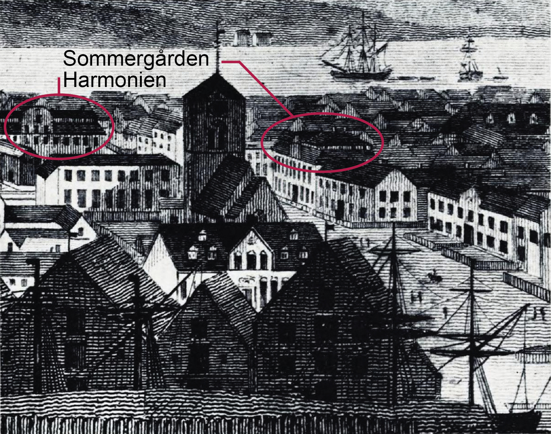 Engraving showing the city center of Trondheim, Norway. From a book published in 1819. Two of the buildings have a special kind of roof: "Seteri-roof"/seteritak, probably removed before the publishing of the book